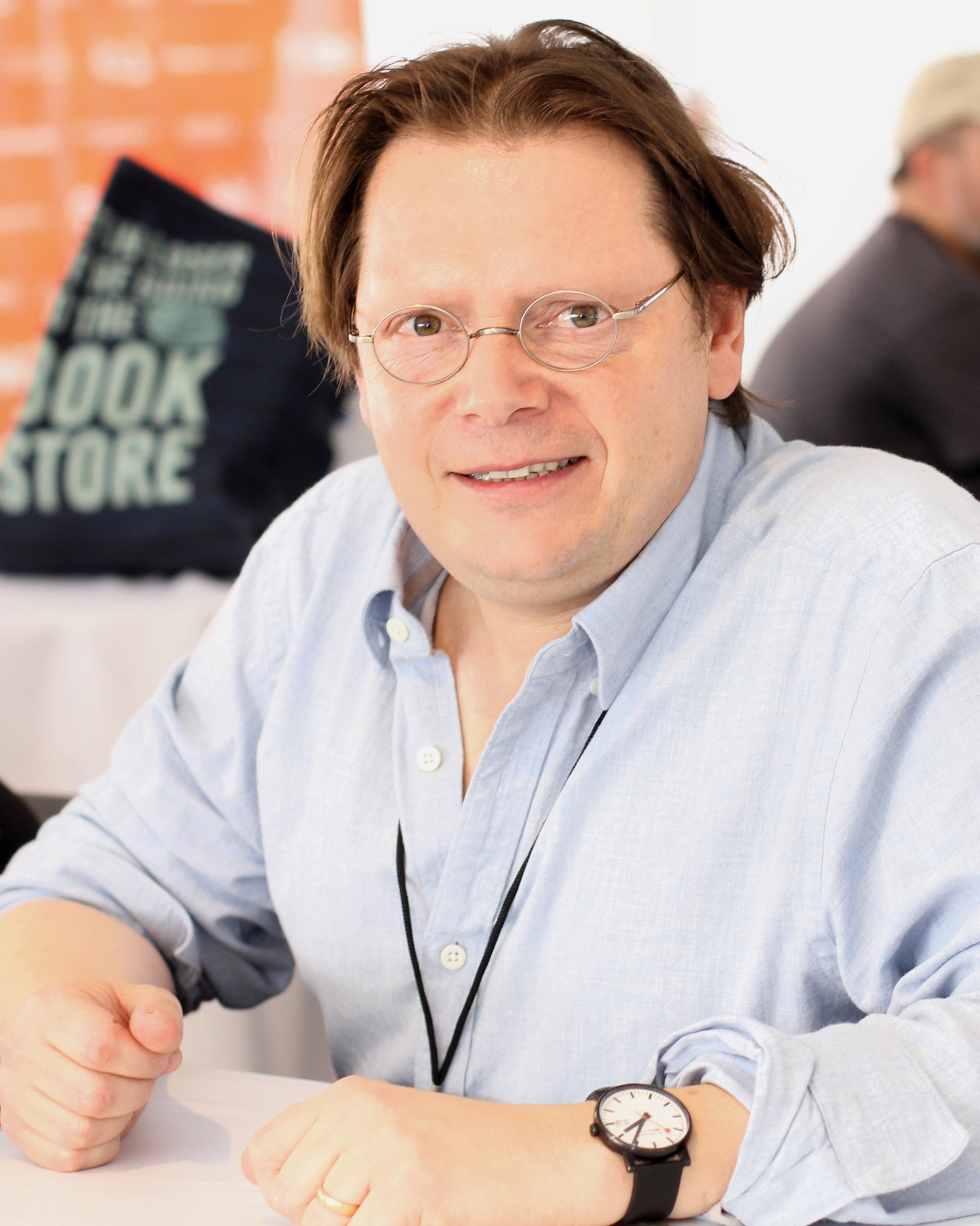 Author Edward Carey at the 2018 Texas Book Festival in Austin, Texas, United States.